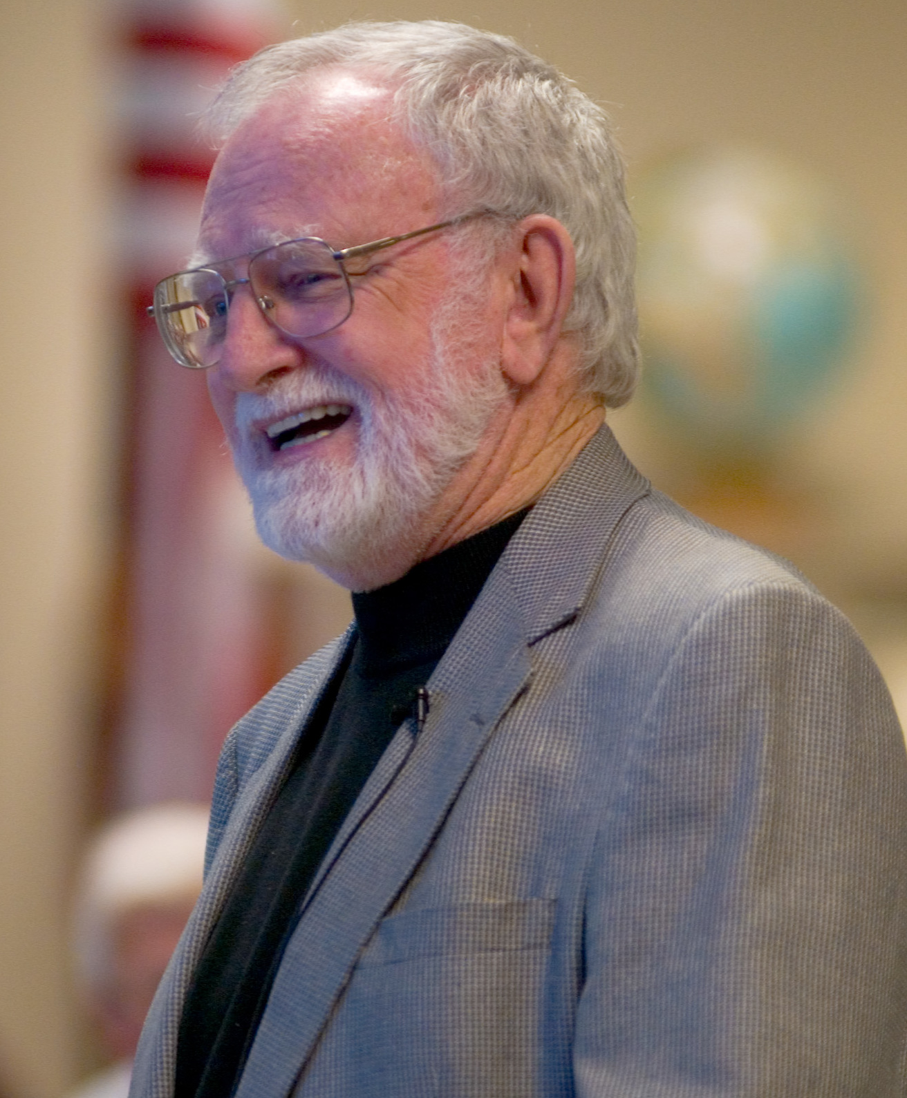 Pat McManus at Eastern Washington University